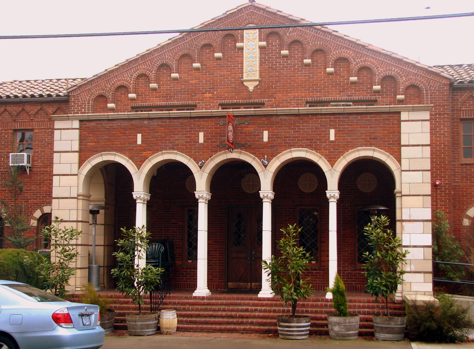 The historic Wilson-Chambers Mortuary (built 1932), located at 360 North Killingsworth Street in Portland, Oregon, United States, is listed on the US National Register of Historic Places (NRHP). It is currently in use as a restaurant/pub.